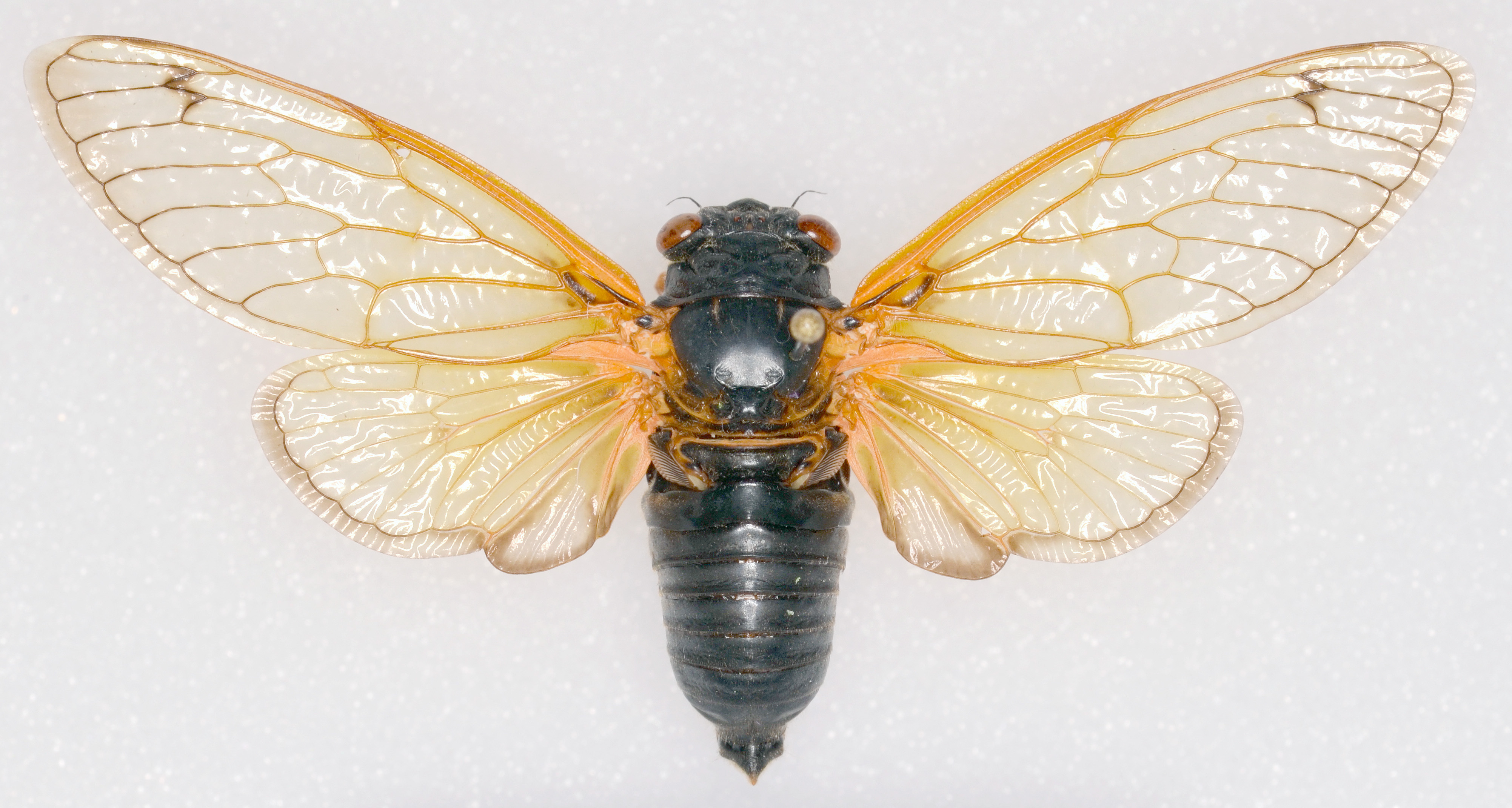 Dorsal image of pinned male Magicicada tredecassini from Brood XIX. Collection locality east of Mocksville, NC on Barnes Road, south of US Highway 64, latitude 35.869222, longitude -80.48001 (WGS84 map datum). Collection date 20 May 2011. Collectors: Kathy Hill and David Marshall.